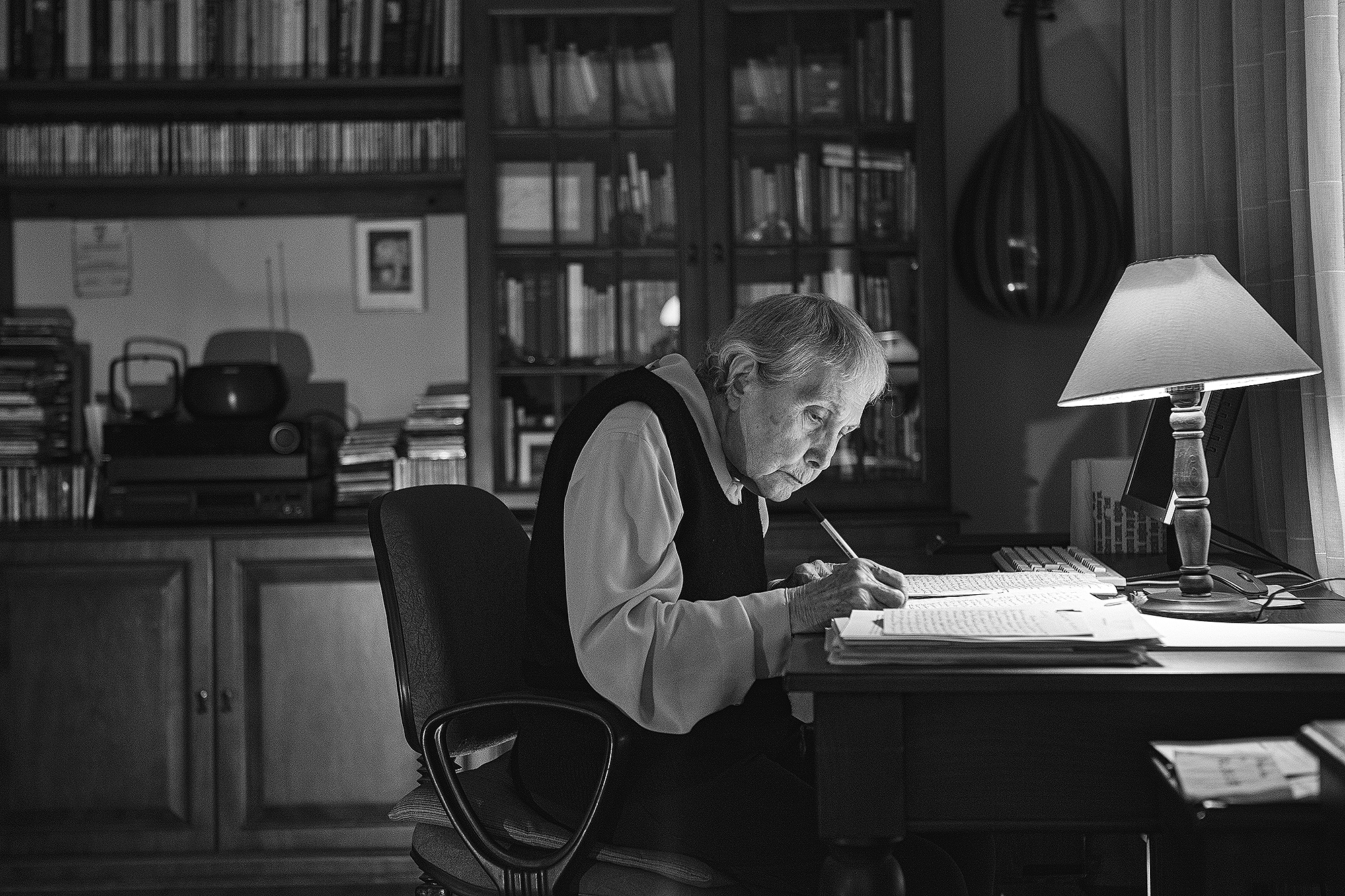 Adalet Ağaoğlu Photographer: Erhan Saçlı